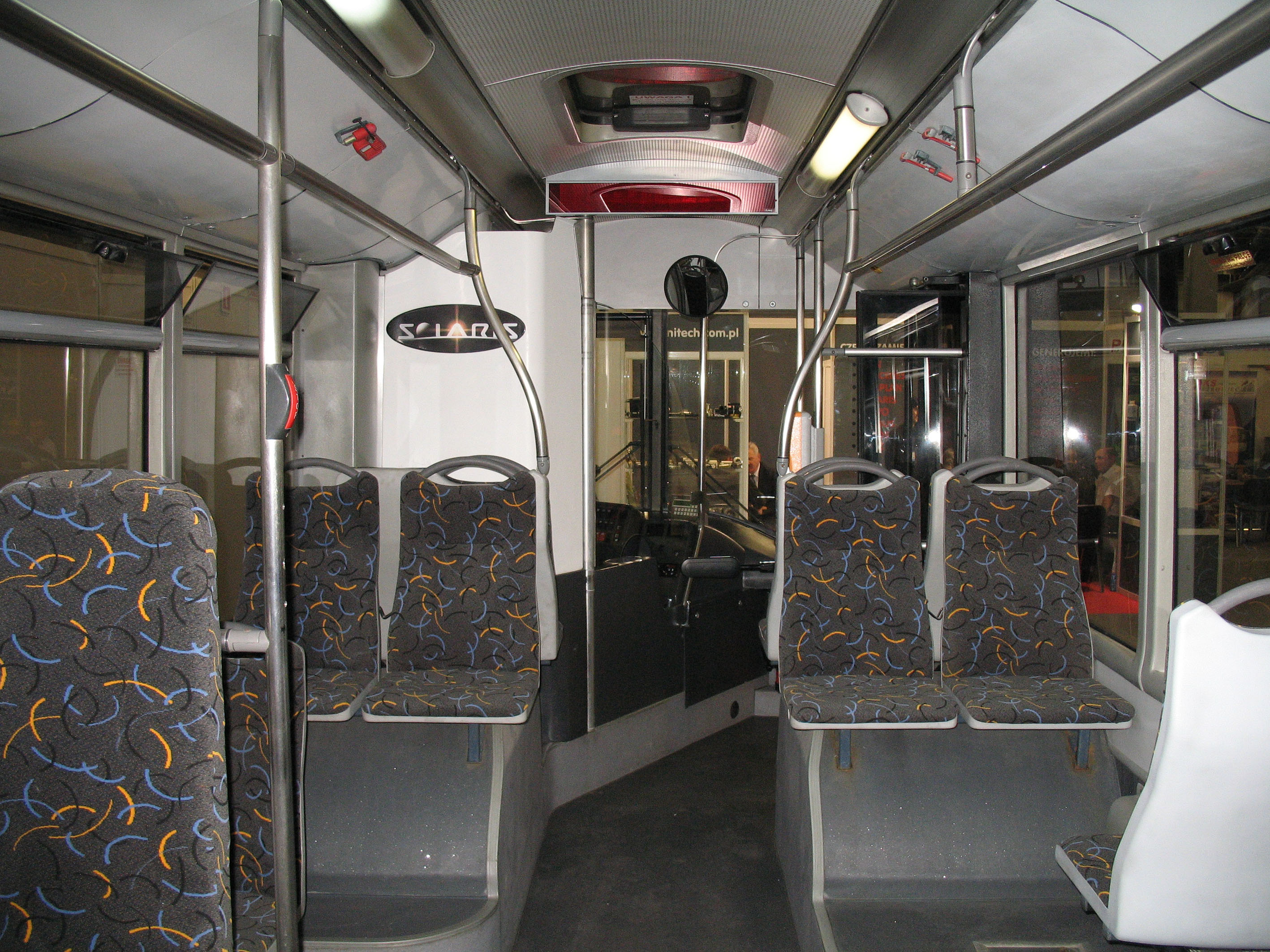 Solaris Urbino 15 Mk1 bus (reg. WZ 6077F) interior in Kielce, Poland. Built 2000, Bus & Truck Service (BTS) from Wyględy operator. Transexpo 2011.